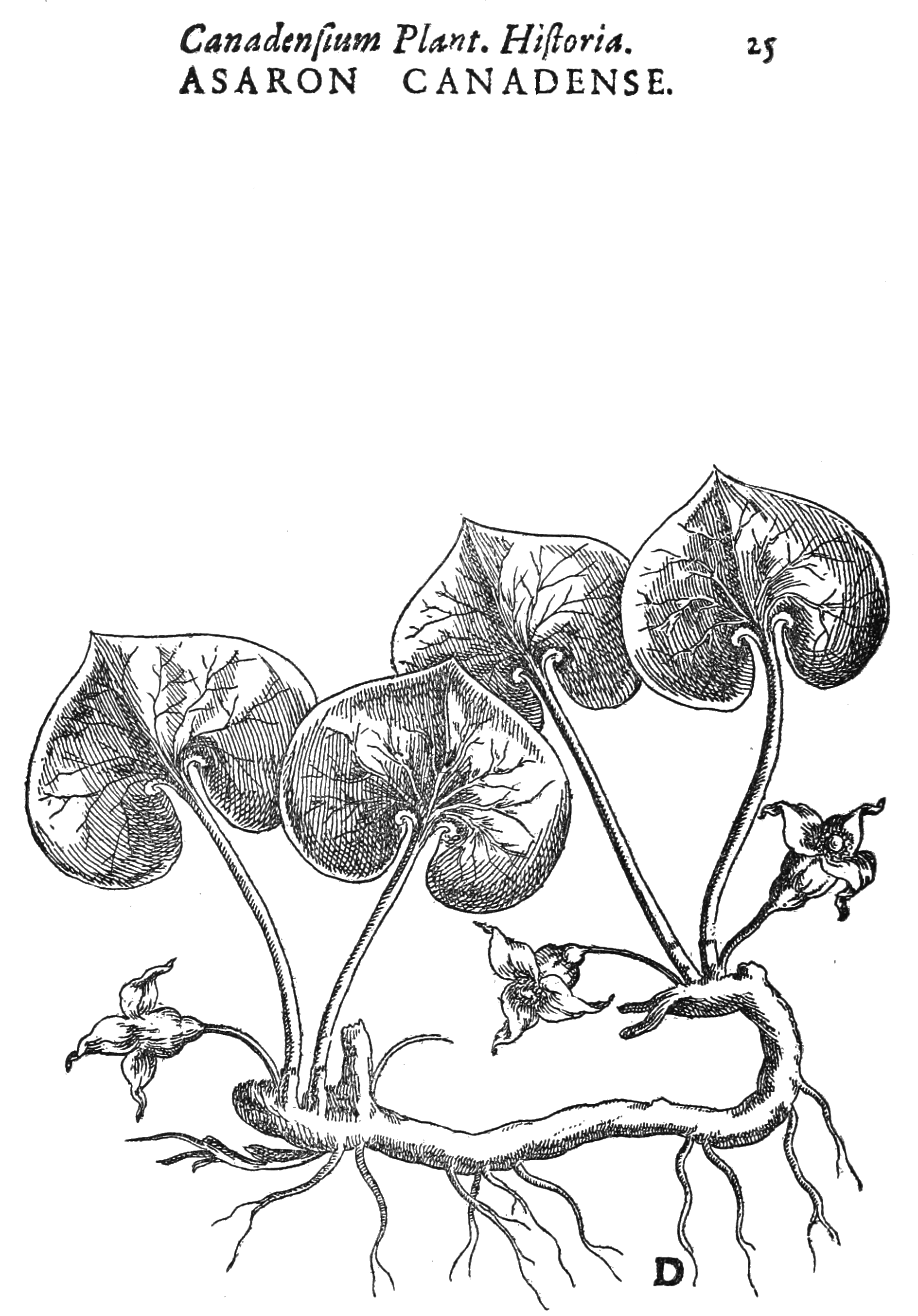 Illustration for the article THE PROGRESS OF OUR KNOWLEDGE OF THE FLORA OF NORTH AMERICA by Lucien Marcus Underwood in Popular Science Monthly, catpioned: "Fig. 3. Fac-simile of illustration by Cornut (1684) of wild ginger (Asarum canadense). (Plate by courtesy of The Plant World.)